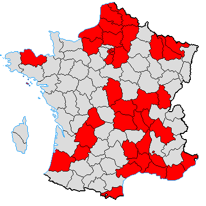 Self-made map of departments with one or more Communist general councillor (red).